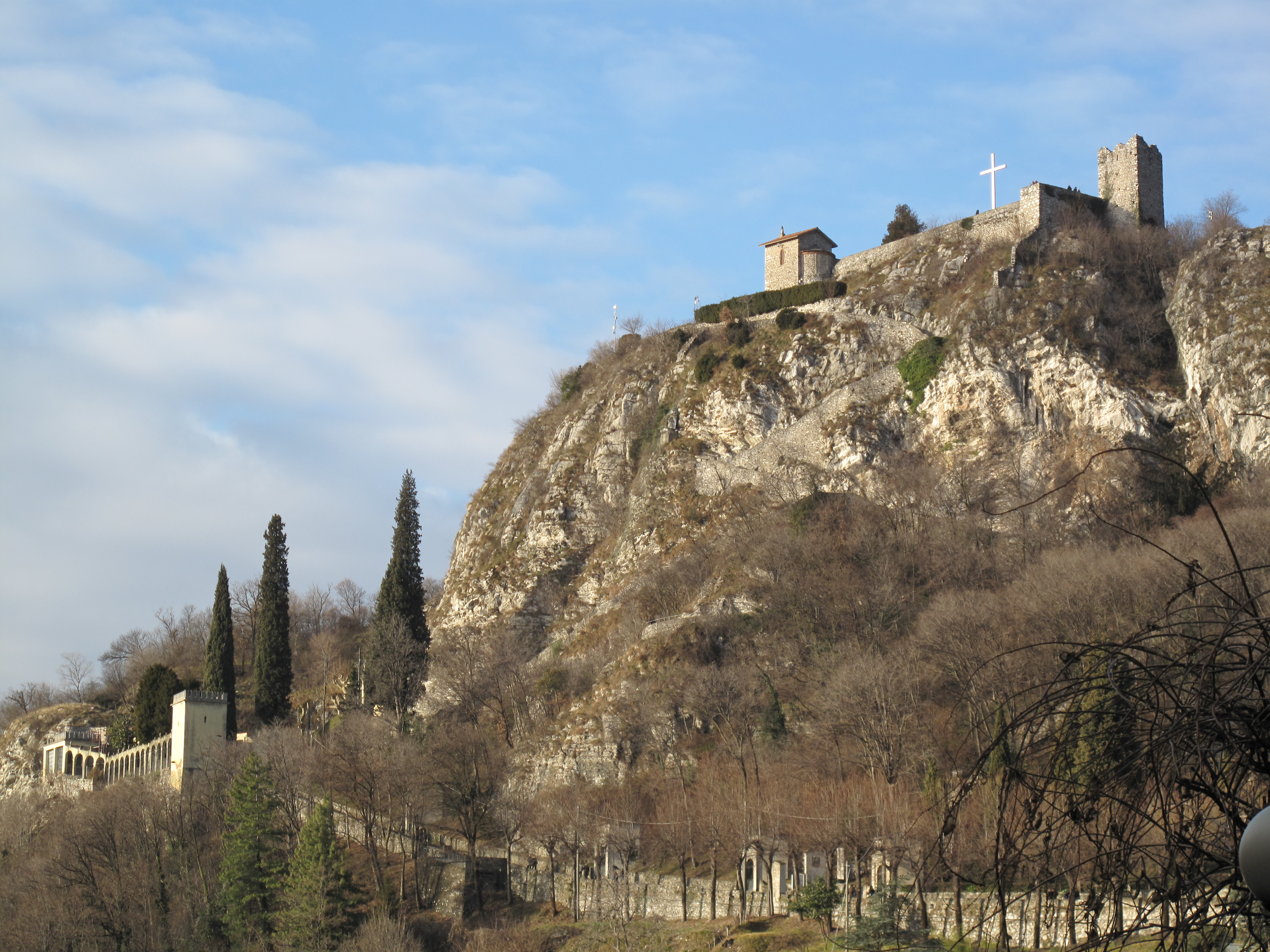 Castle of Innominato (Character of "I promessi Sposi") in Vercurago di Somasca (LC) Italy